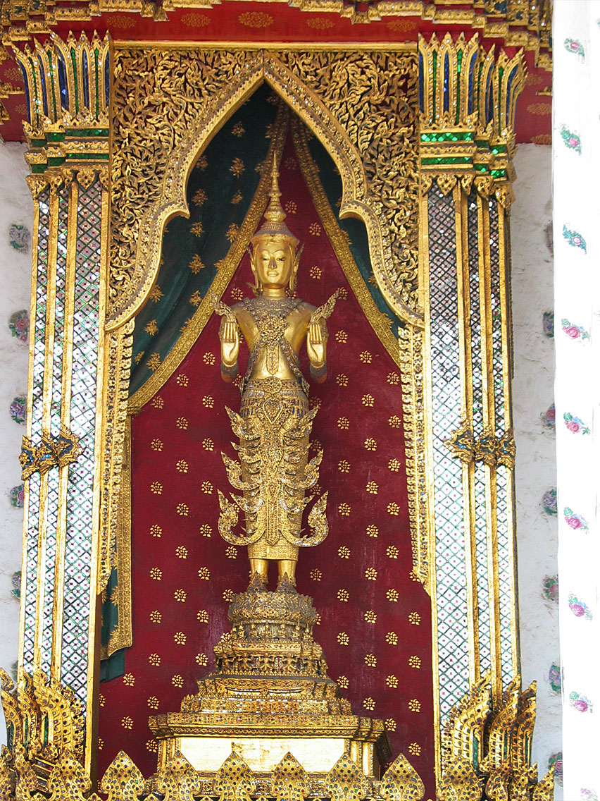 Standing Buddha, "Stopping the ocean", Rattanakosin style "in royal attire", Wat Arun, Bangkok, Thailand